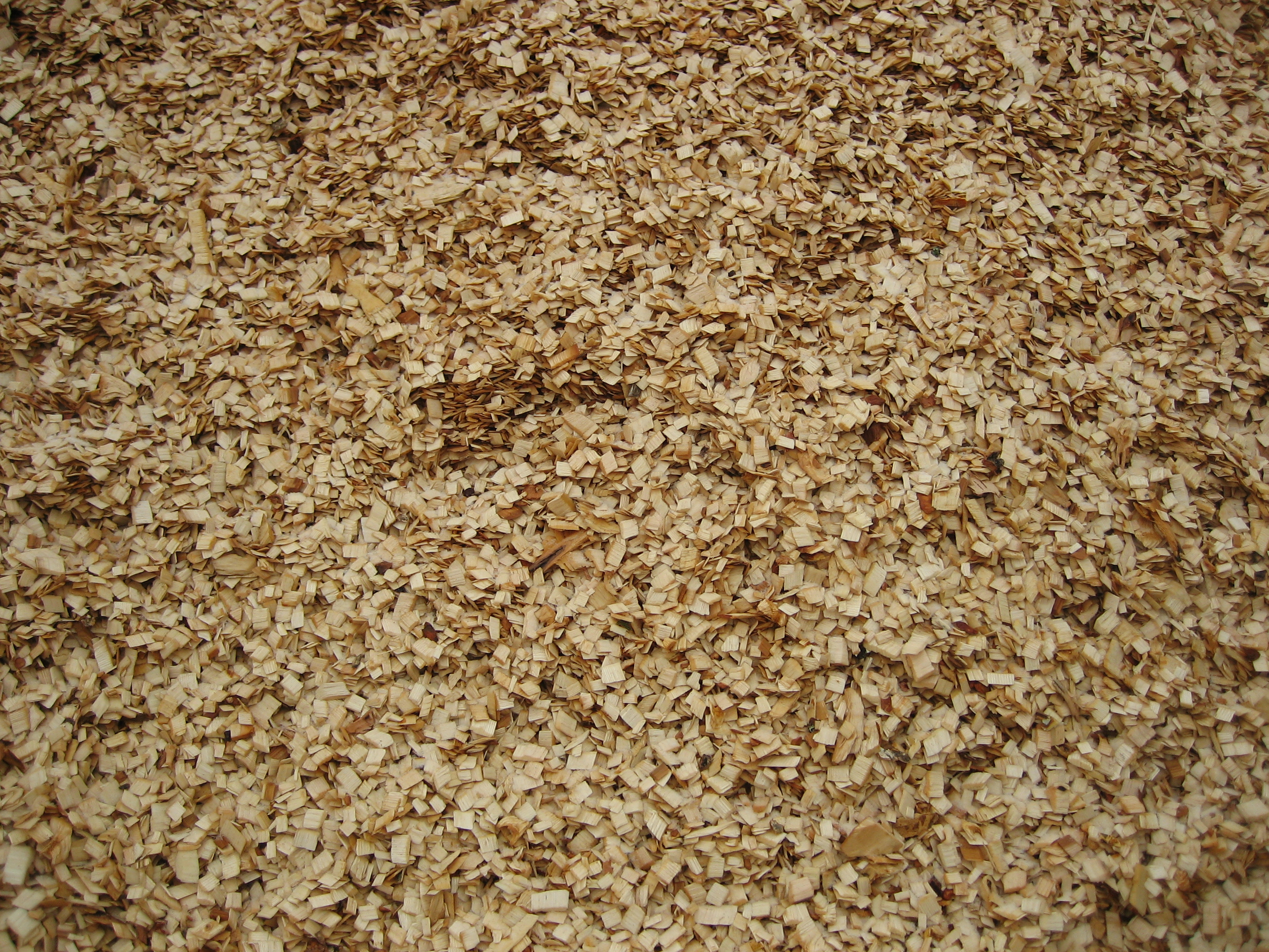 Woodchips from birch (Betula pendula or Betula pubescens) for paper production.